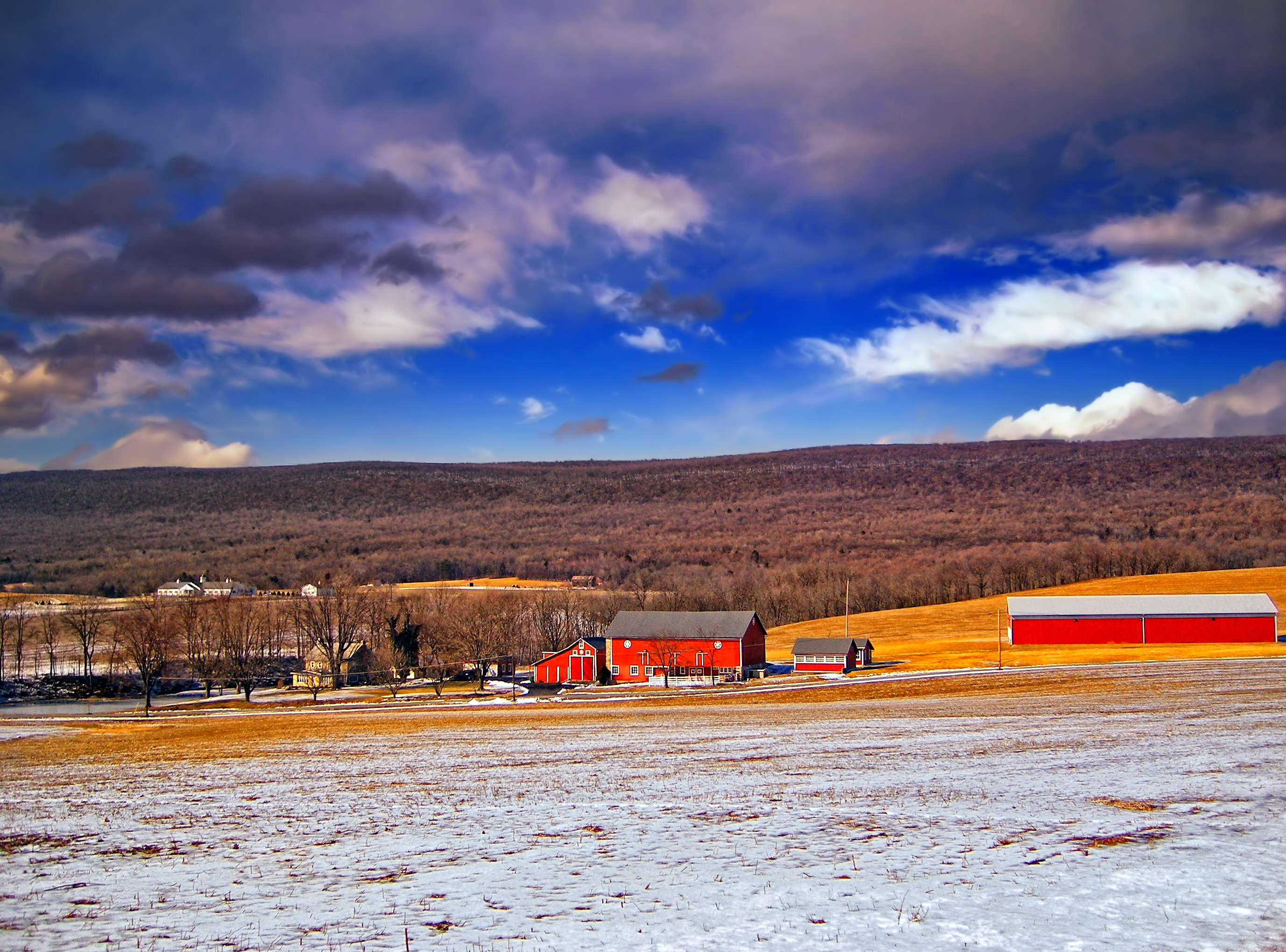 Farmstead, Lynn Township, Lehigh County.